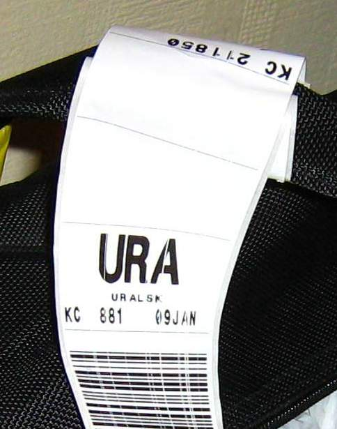 Luggage tag for a flight to Uralsk Airport (IATA code URA)